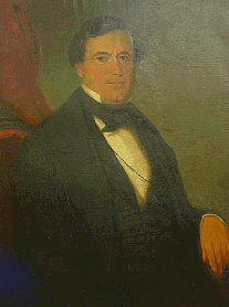 William Tharp of Delaware (1803-1865) Oil portrait; 31" X 37 1/2." Courtesy of Delaware Department of State, Division of Historical and Cultural Affairs.